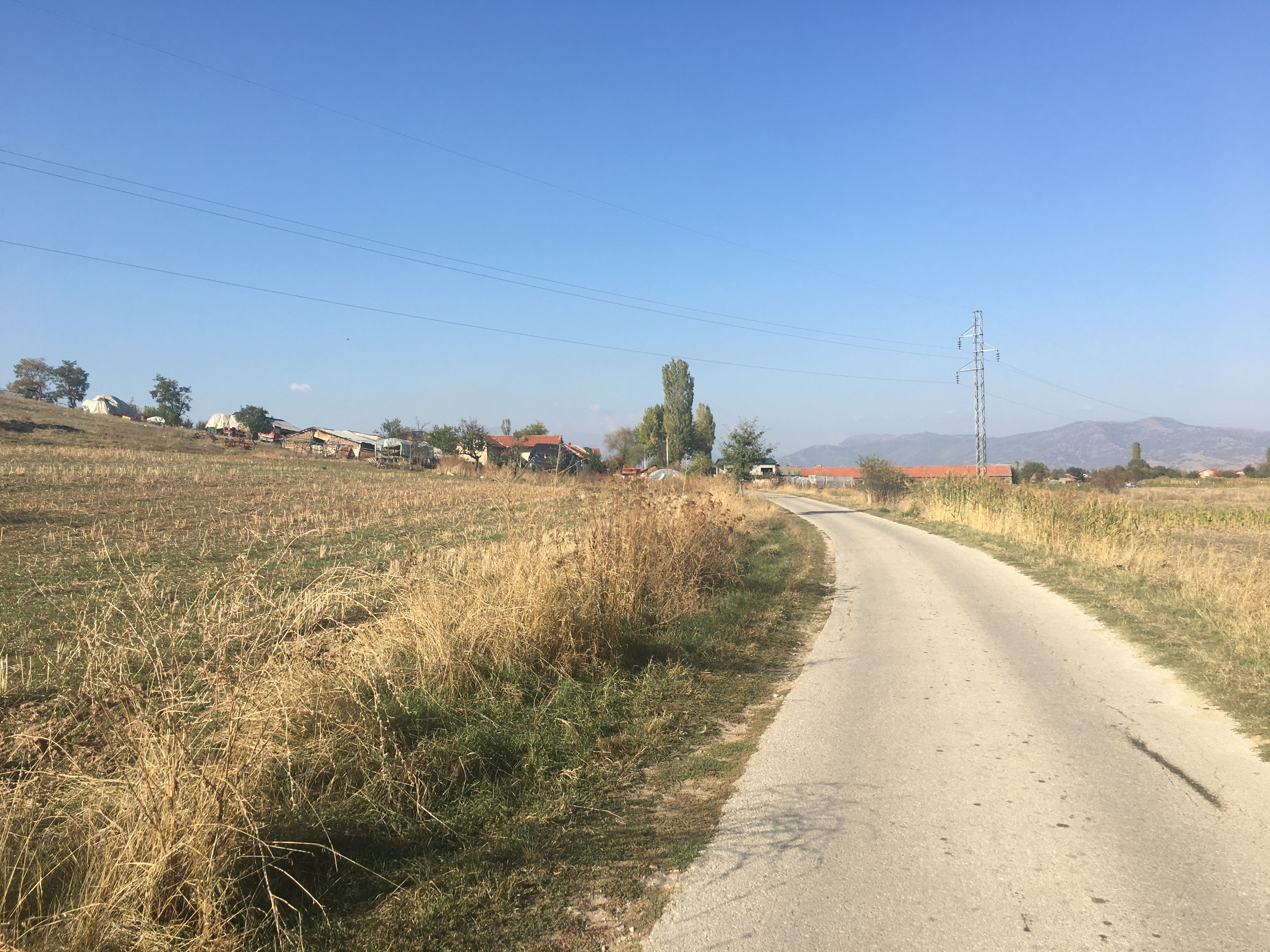 A view of the village of Novoselani, Prilep